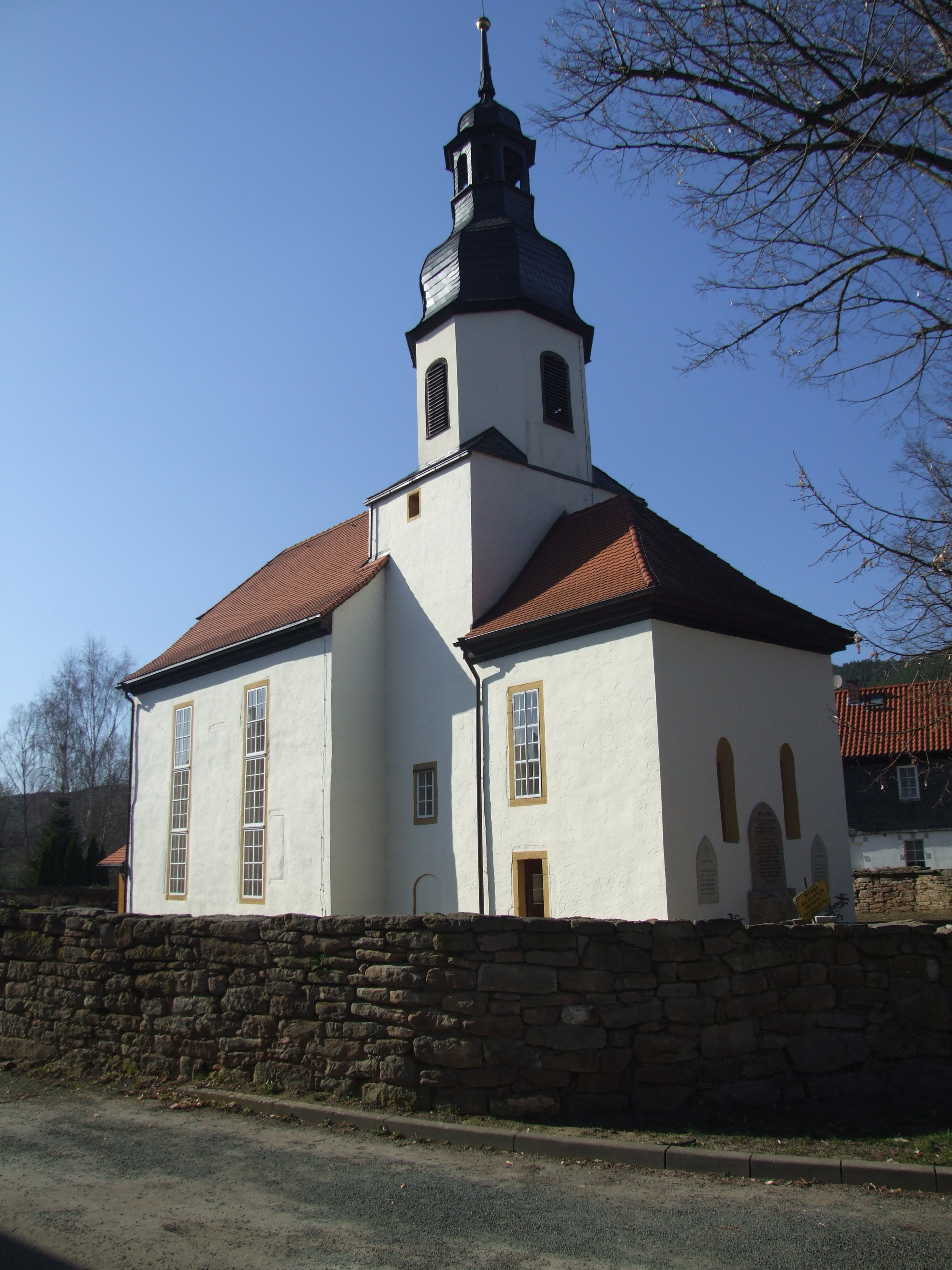 Church Weissen